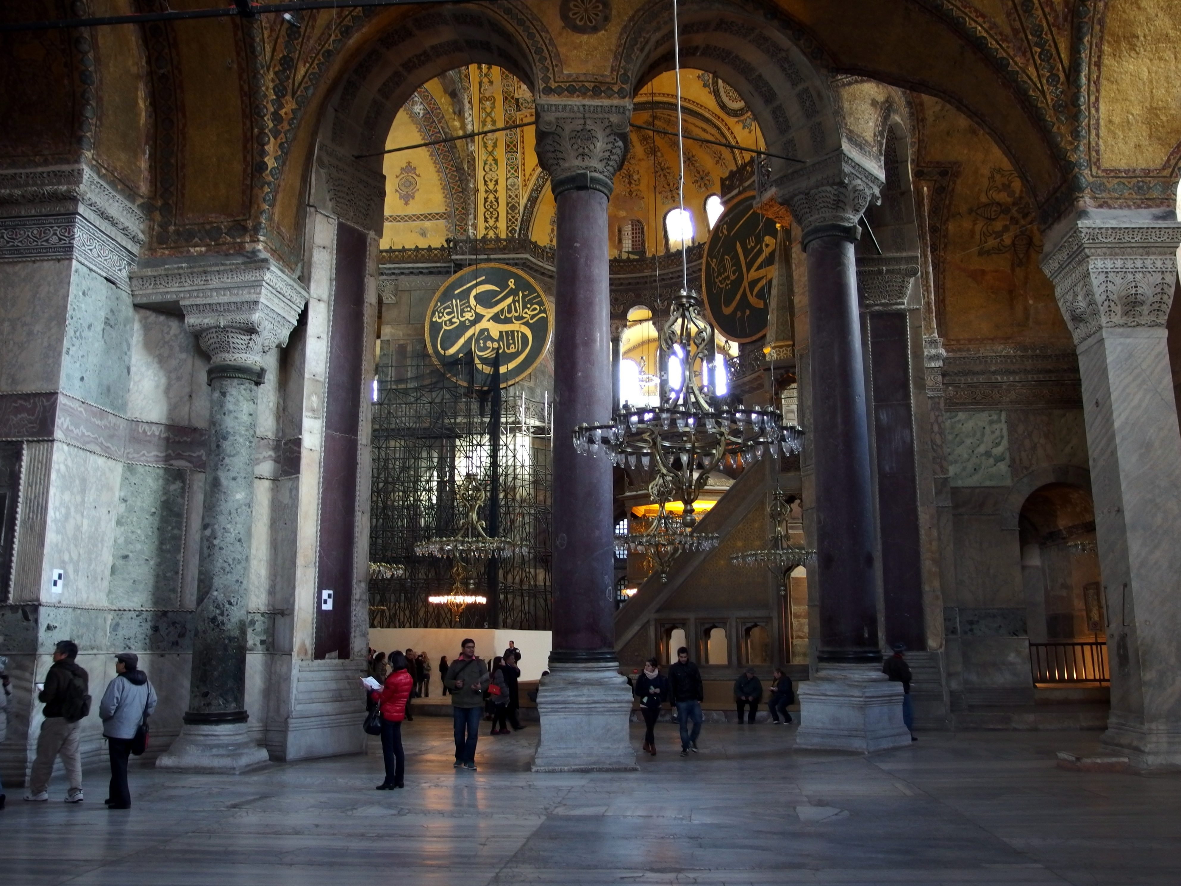 2013-12-03 in Istanbul